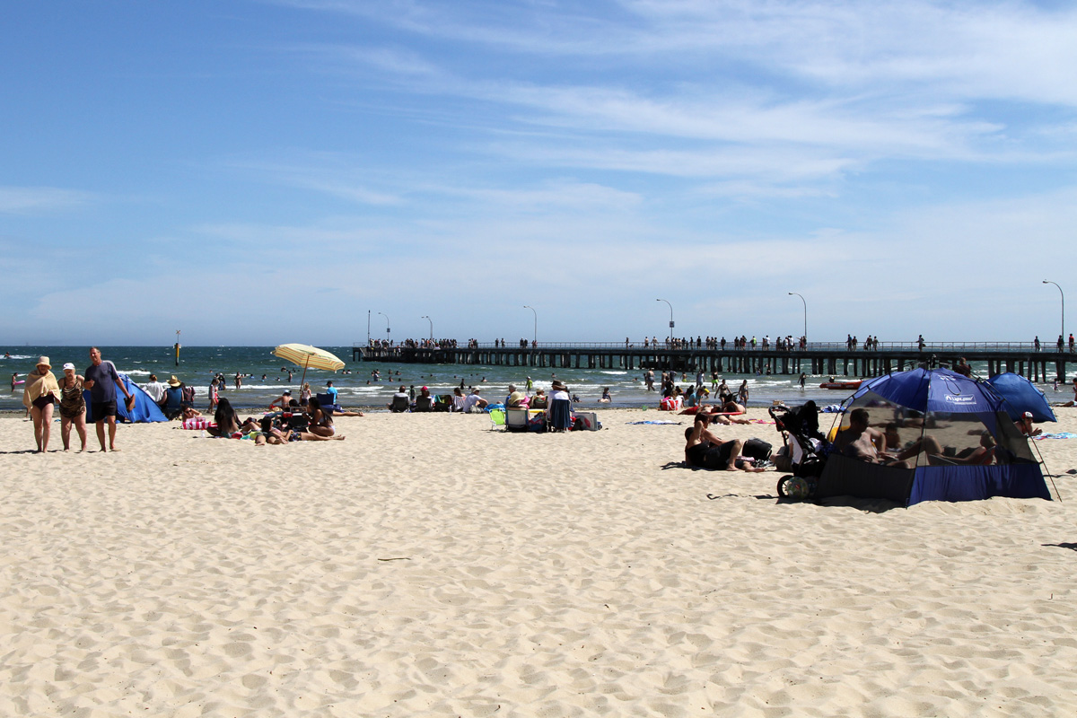 Looking west from the Esplanade towards the pier on Altona Beach on a warm (31°) summer's Sunday afternoon, Altona, Victoria, Australia.